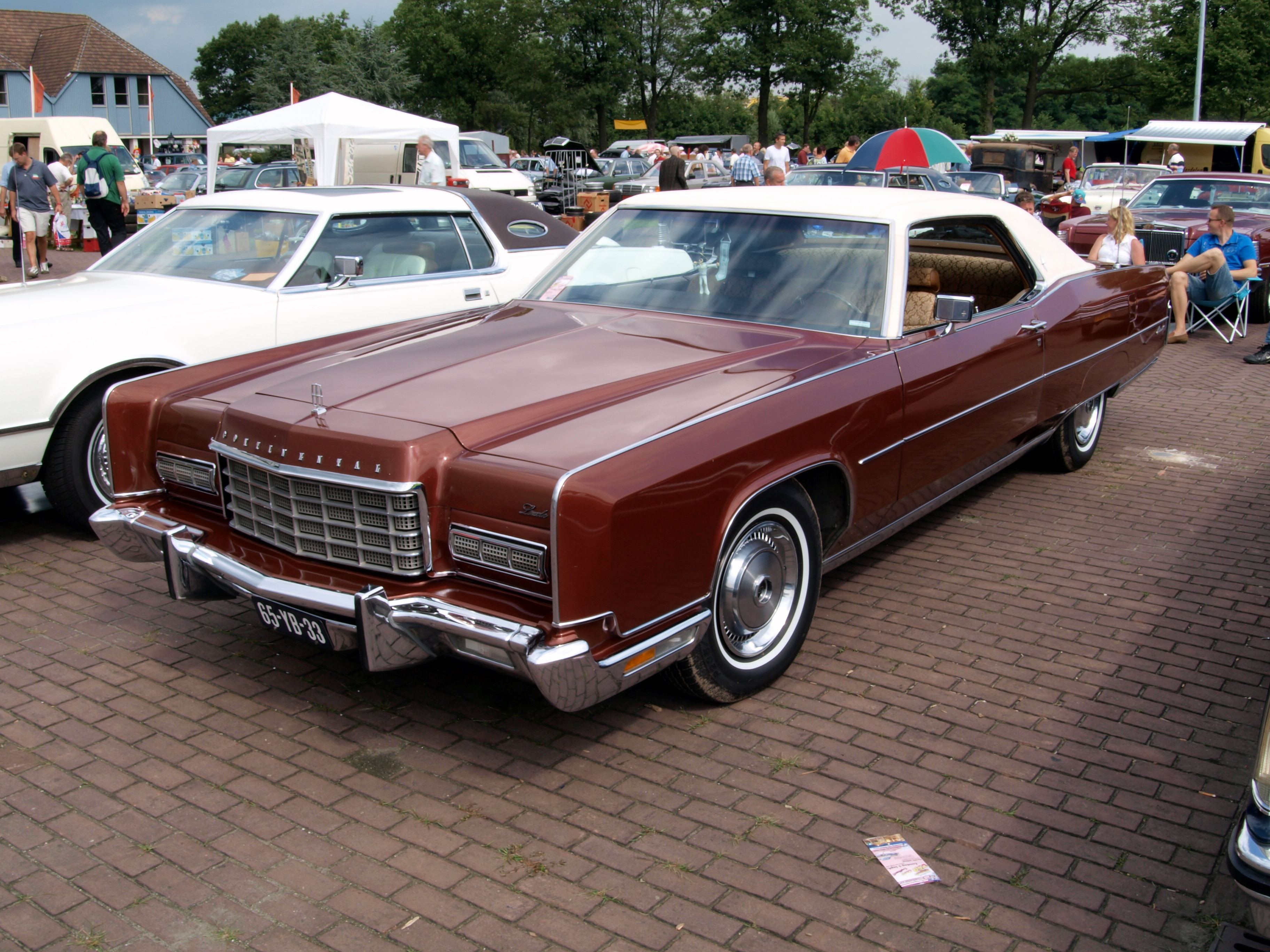 Photographed at the 2010 Autotron Classic car meeting, Rosmalen, The Netherlands. OLYMPUS DIGITAL CAMERA